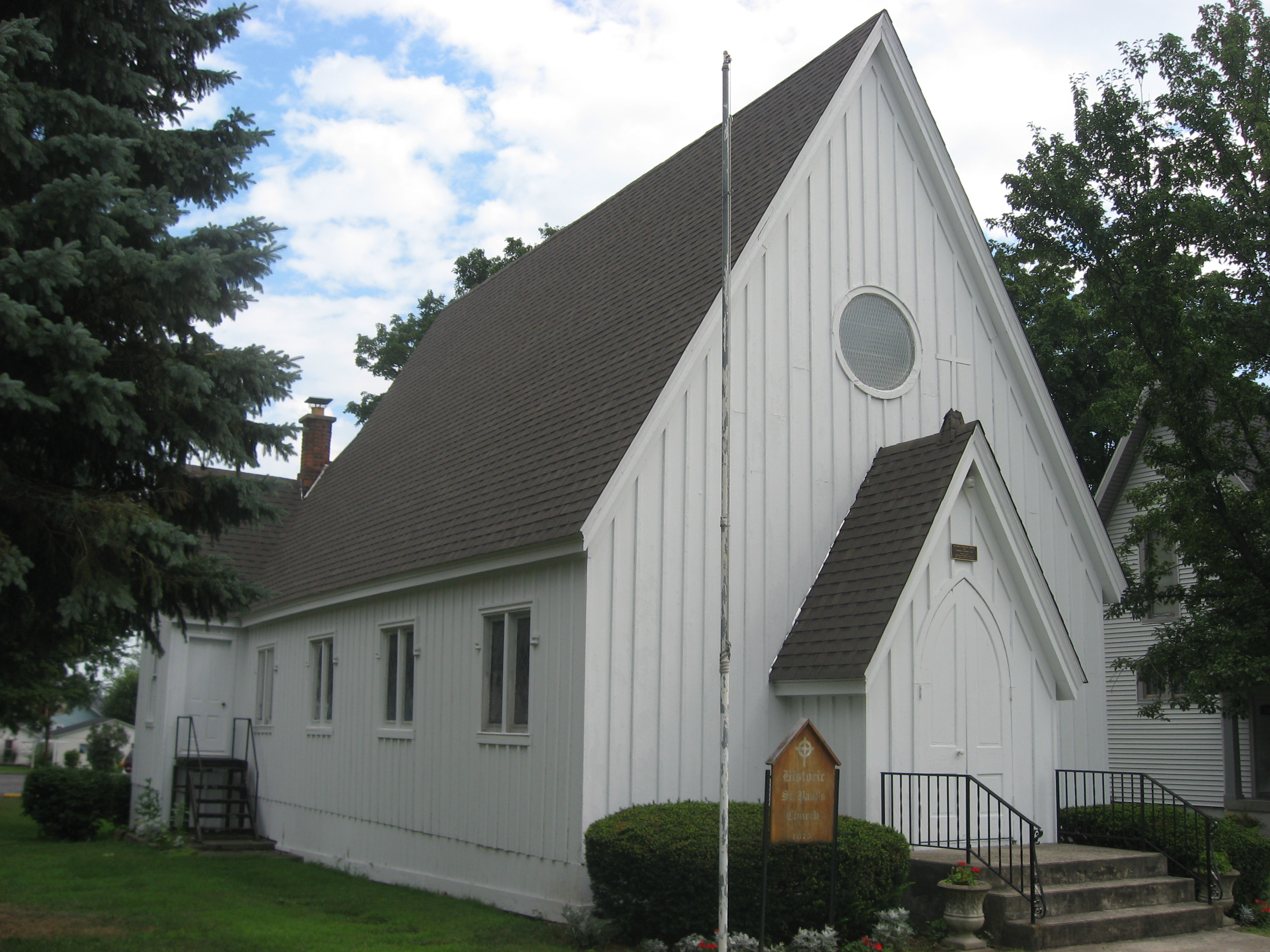 Front and eastern side of the former St. Paul's Episcopal Church, located along W. High Street (State Routes 2 and 49) in Hicksville, Ohio, United States. Built in 1873, it is listed on the National Register of Historic Places.